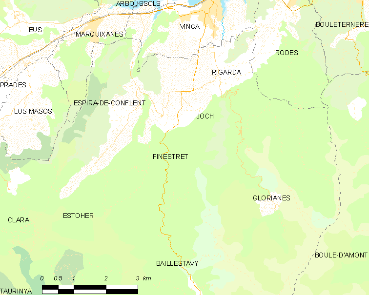 Map of French municipality